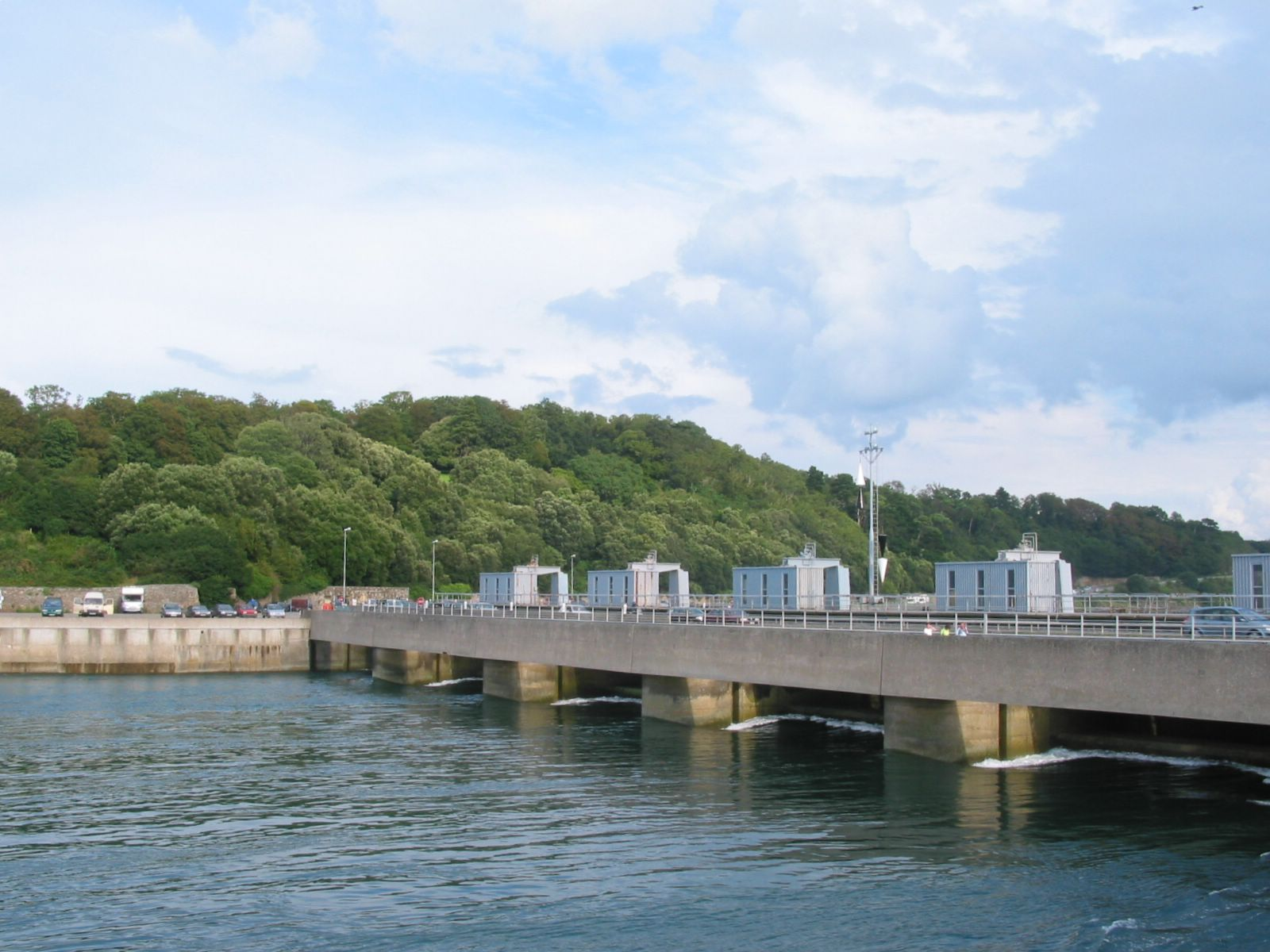 Dam of the tidal power plant on the estuary of the Rance River, Bretagne, France